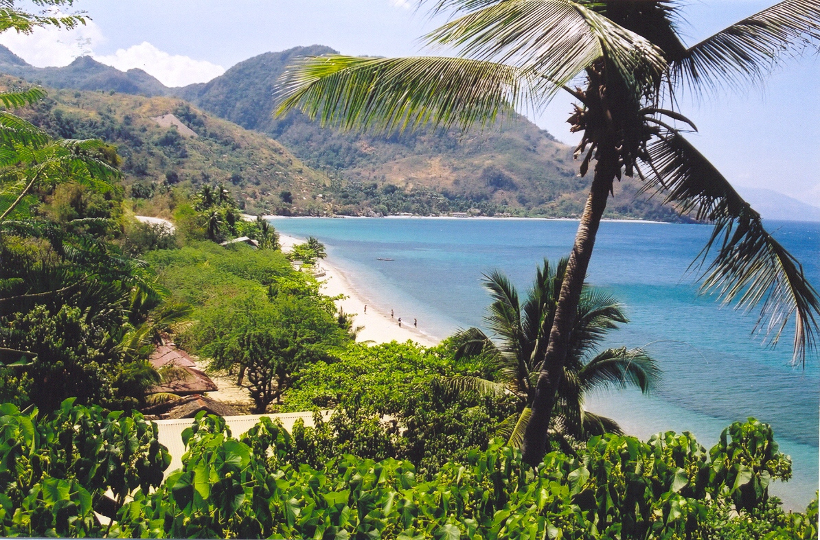 A beach in the North of Mindoro close to Sabang (Philippines)